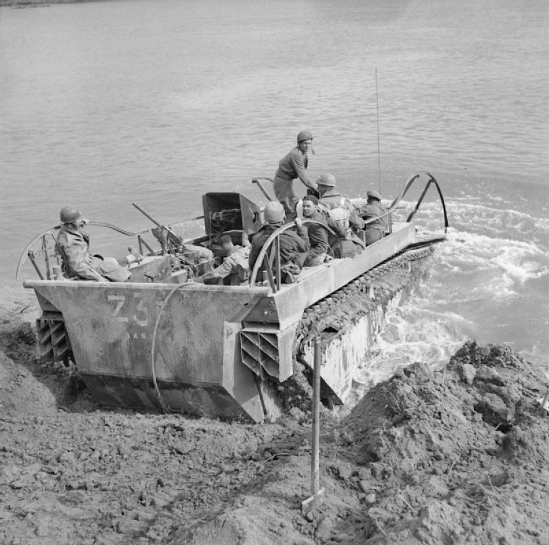 The British Army in Italy 1945 A Buffalo amphibian or 'Fantail' loaded with supplies heads out across the River Po, 26th April 1945.